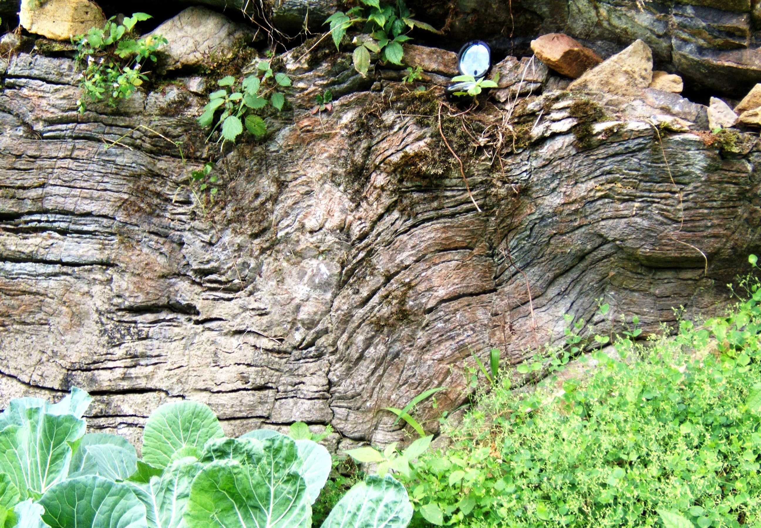 Shale outcrop in SinhLung commune DongVan district HaGiang province, Vietnam